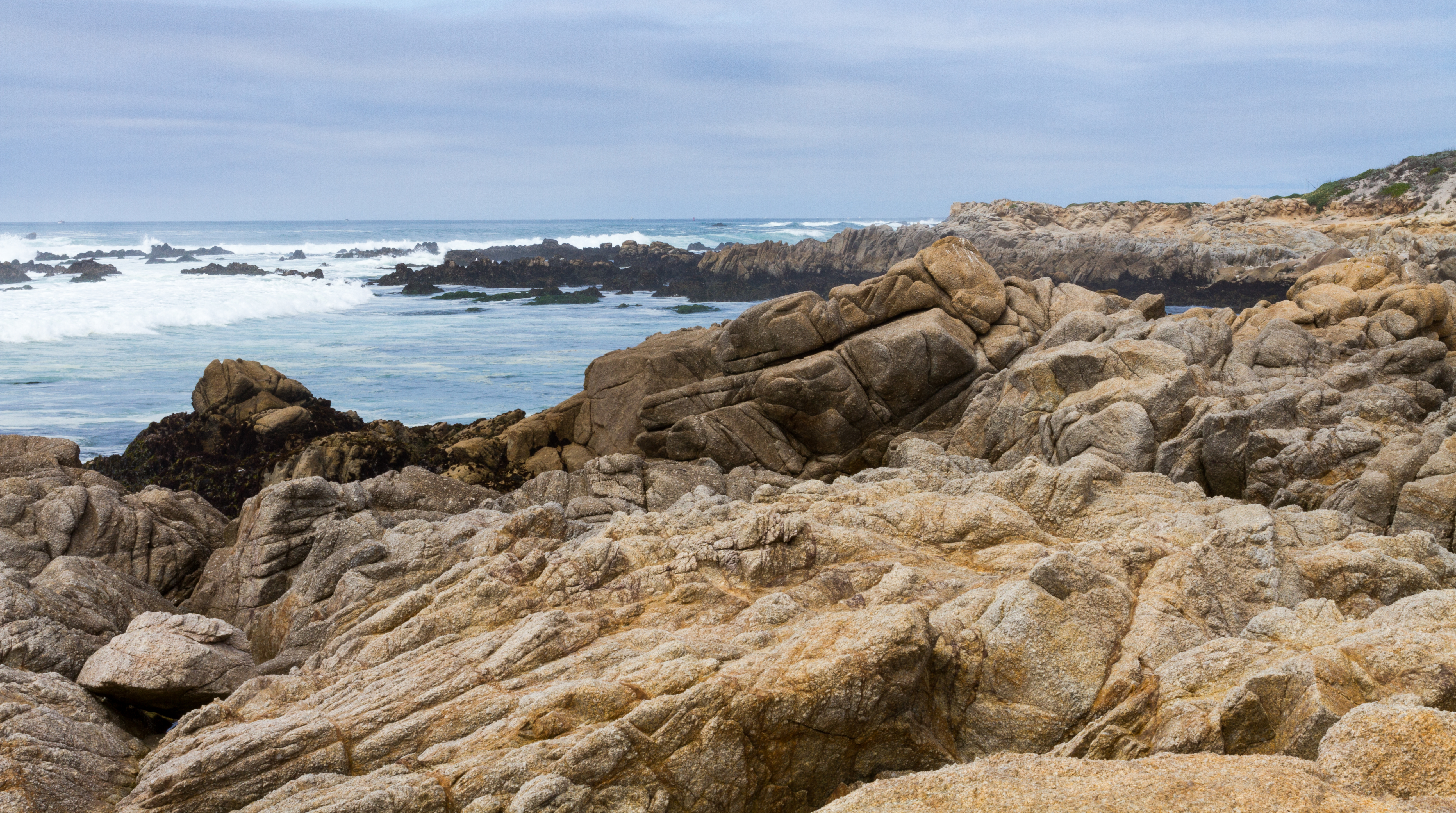 Rocky coast on the Monterey Peninsula near Point Pinos Light, California